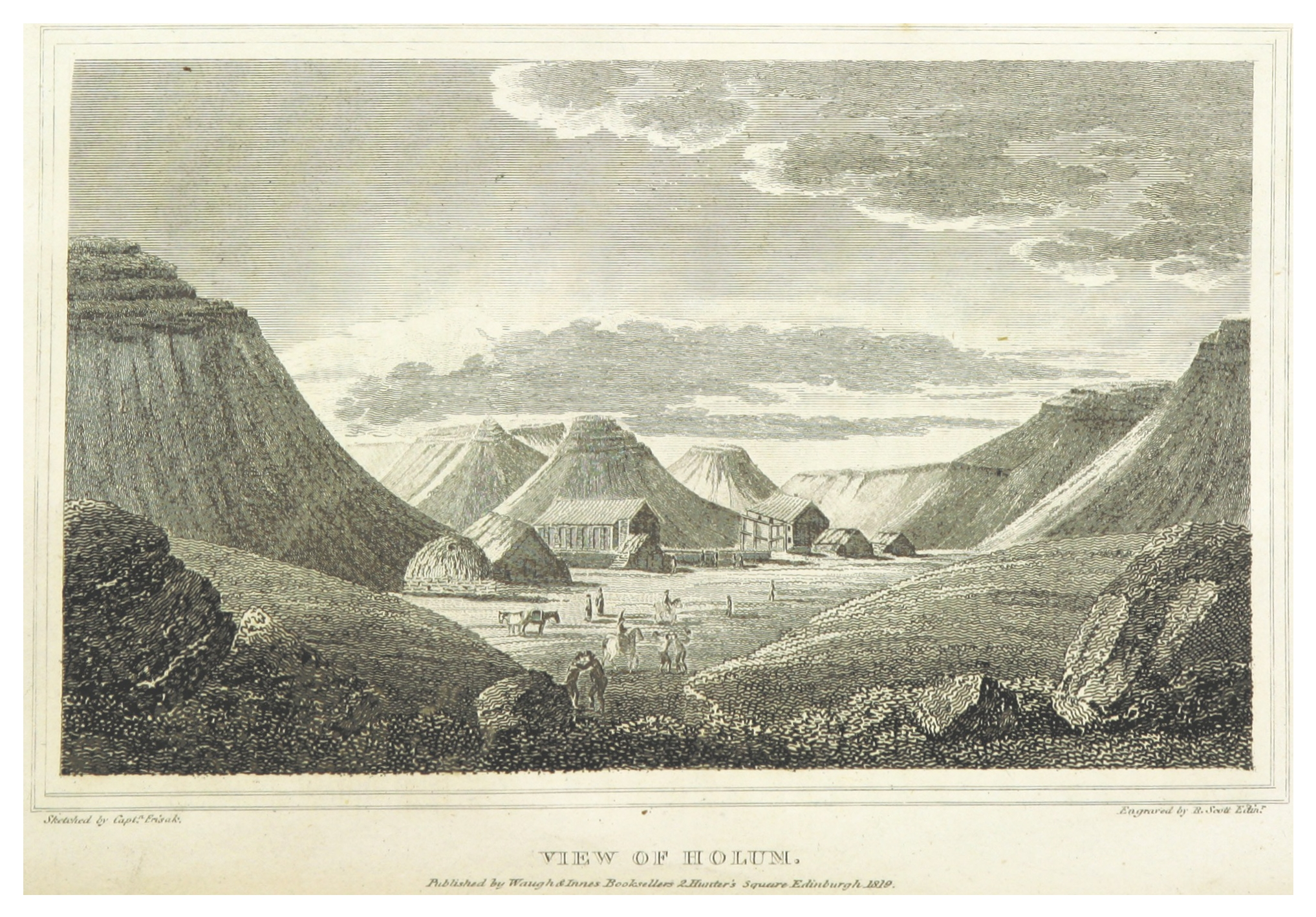 The old church is located in the centre of the village.